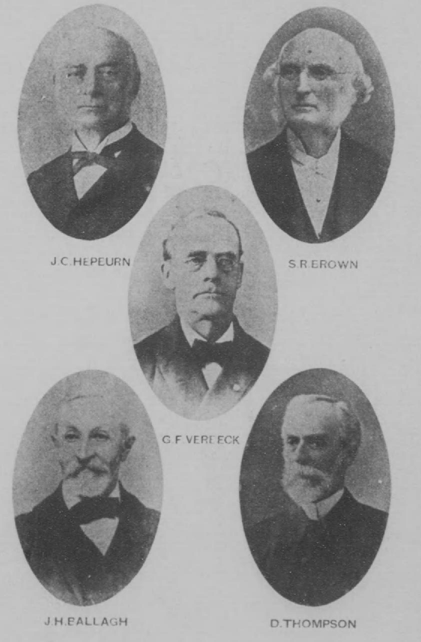 Christian missionaries in Japan.